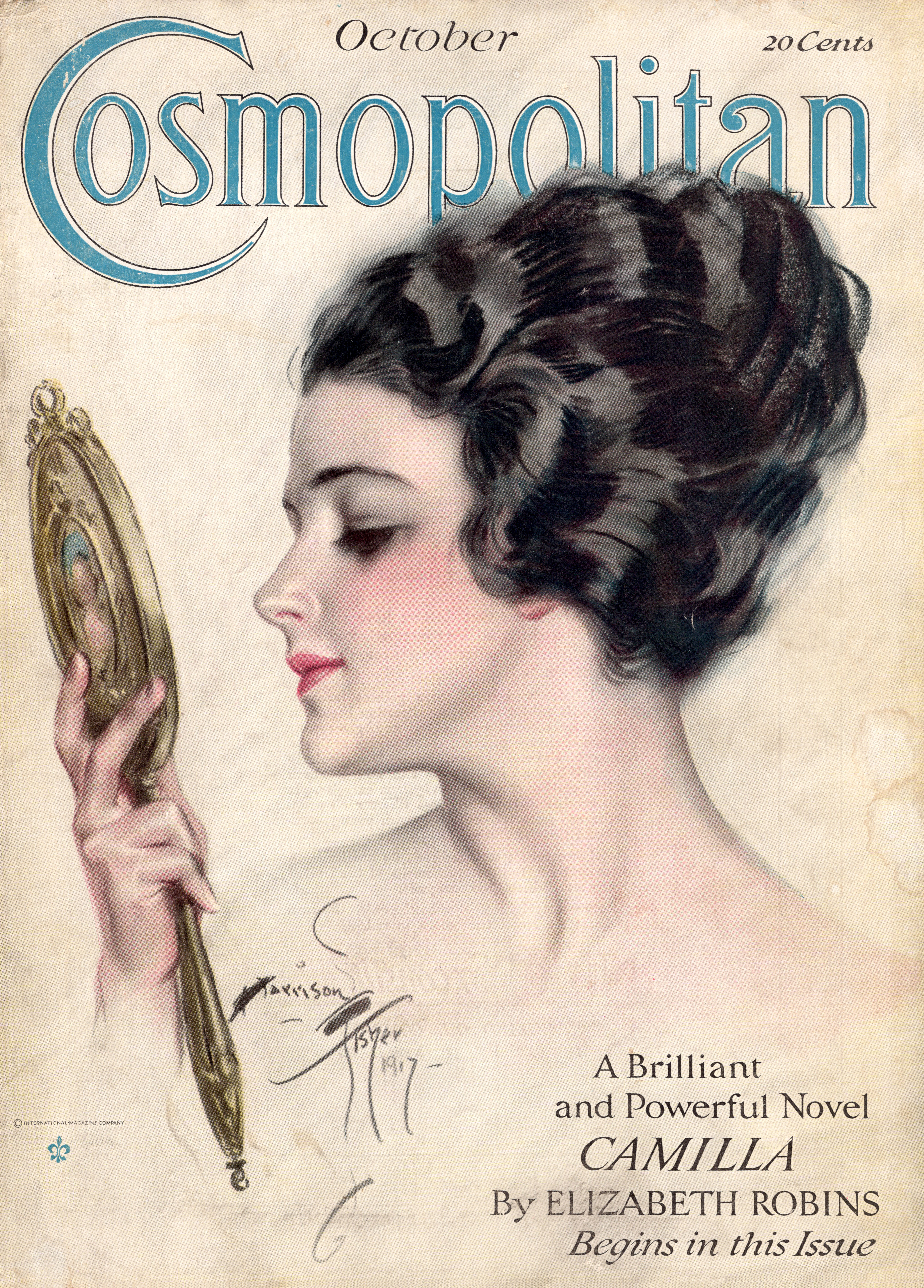 Front cover of Cosmopolitan magazine for October 1917